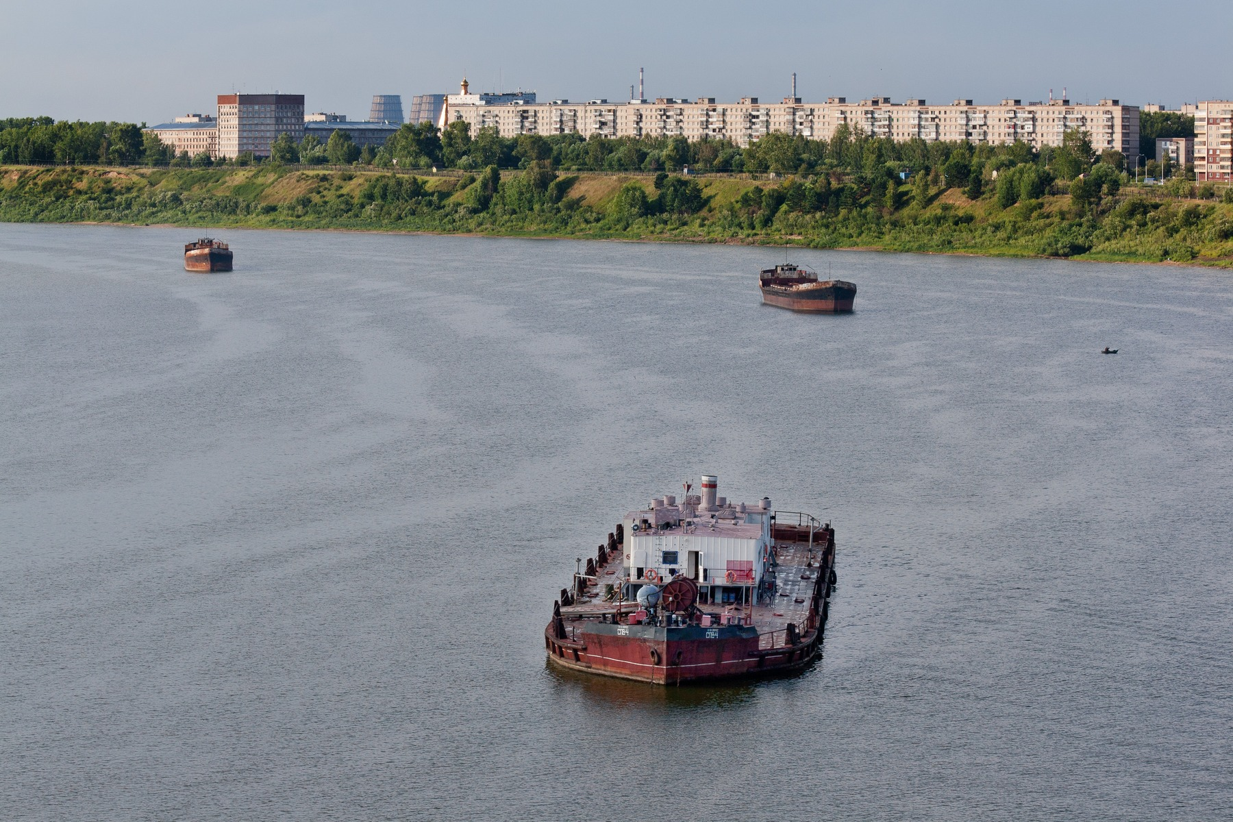 Barges on Tom River in Seversk (from North Bridge) near Tomsk.